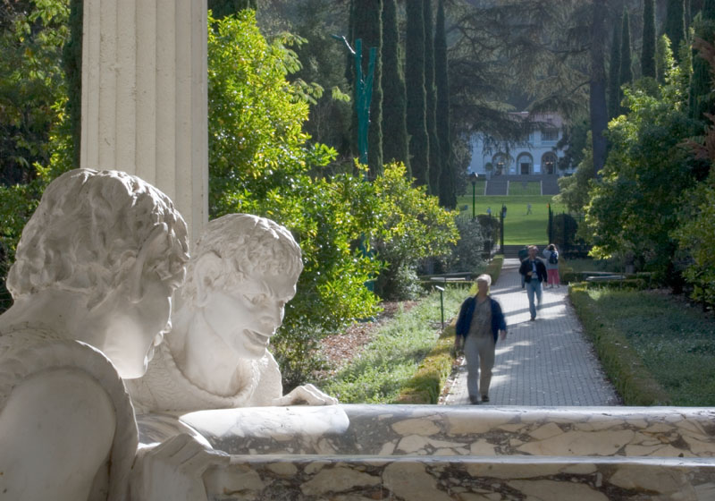 Villa Montalvo, located in Saratoga, California, United States. Demons & Villa